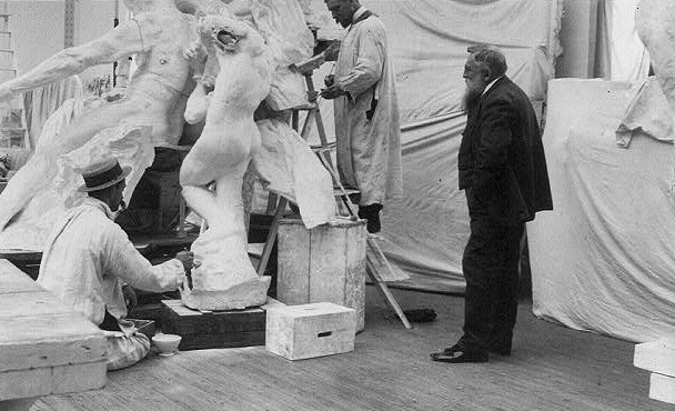 French sculptor Auguste Rodin (1840-1917) in his Paris studio in 1905. Photograph by Frances Benjamin Johnston (1864-1952).